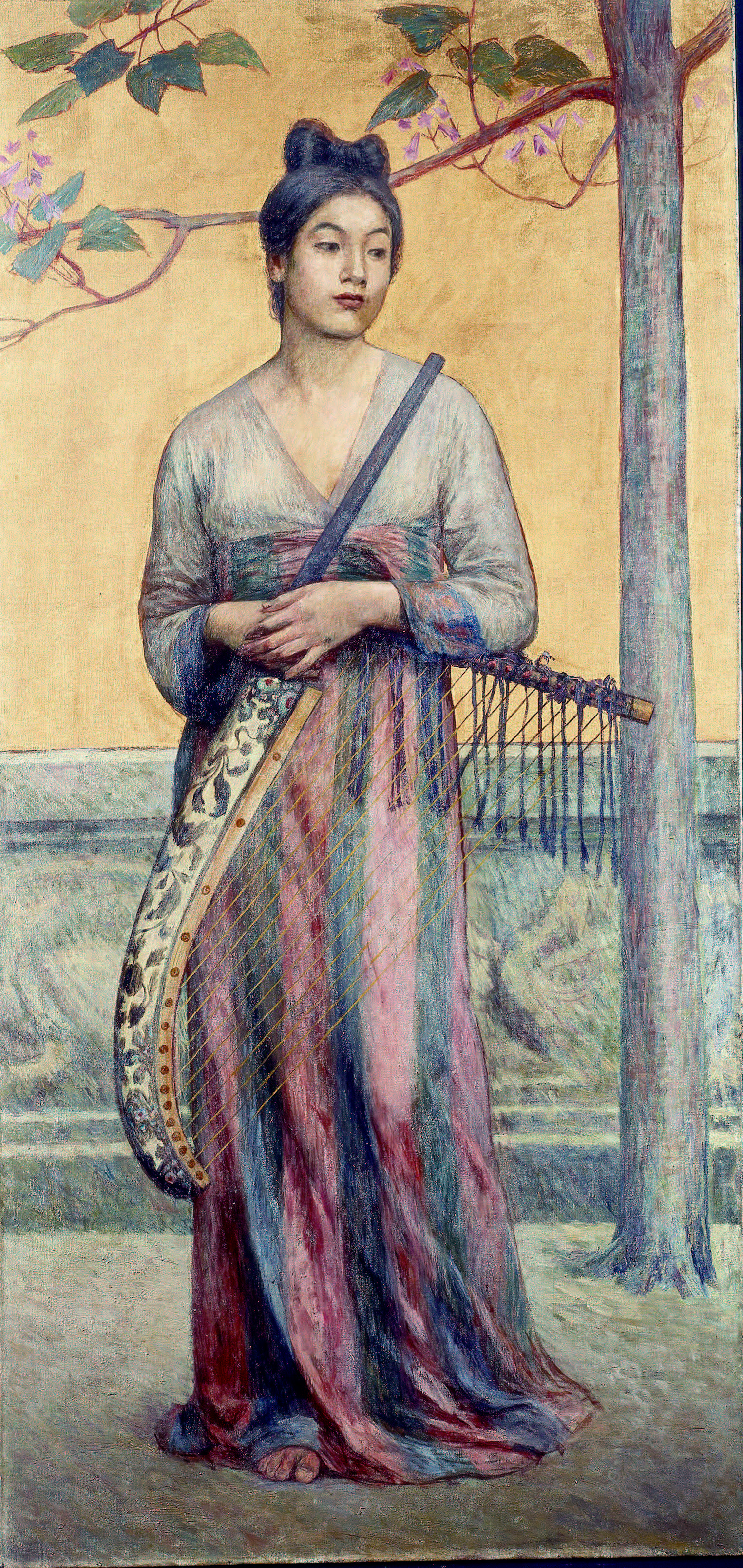 Reminiscence of the Tempyo Era, by Fujishima Takeji, Ishibashi Foundation Research Center, Tokyo, Japan